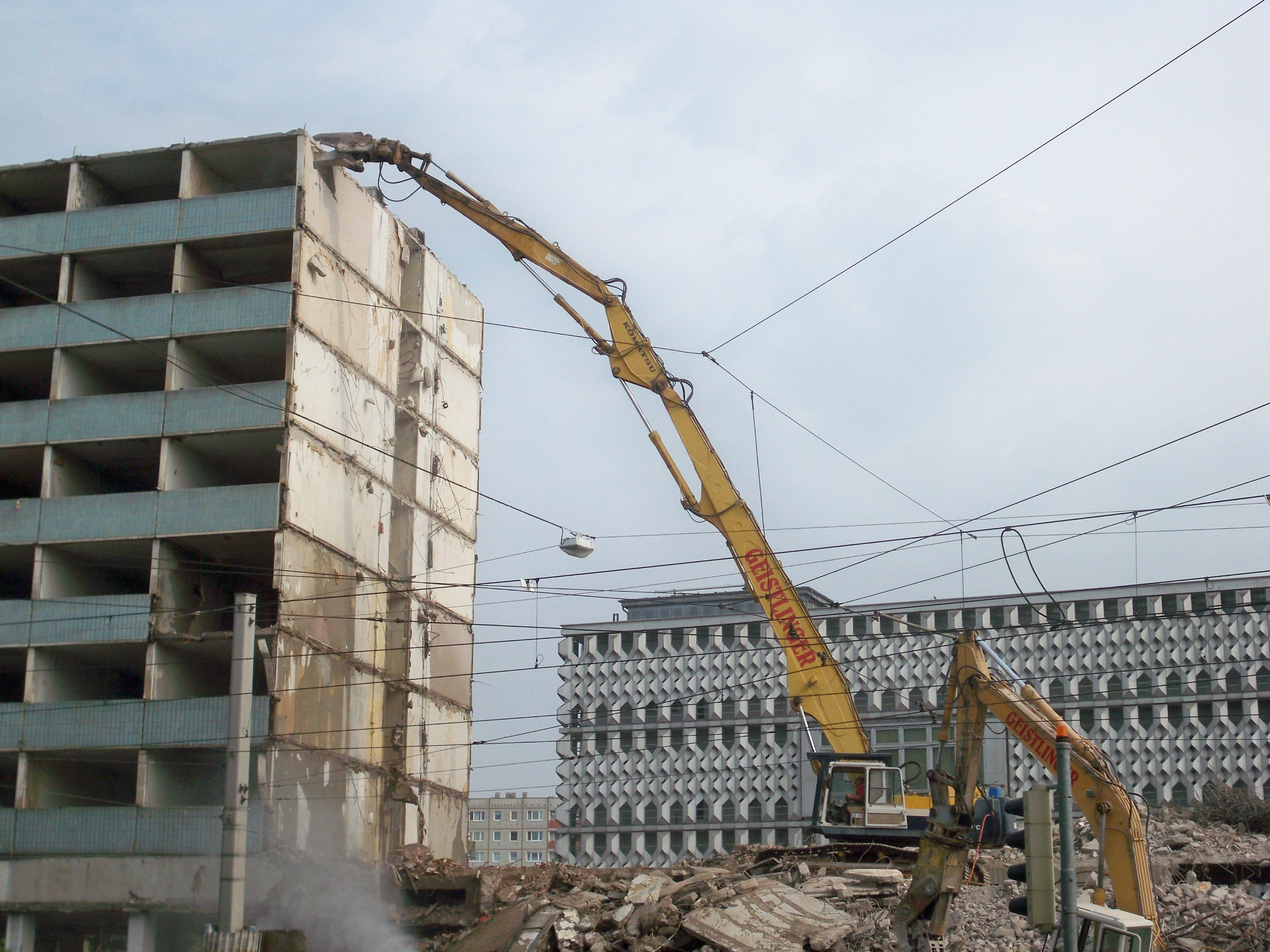 Magdeburg, Saxony-Anhalt, demolition of "Blauer Bock" in city centre with Komatsu car